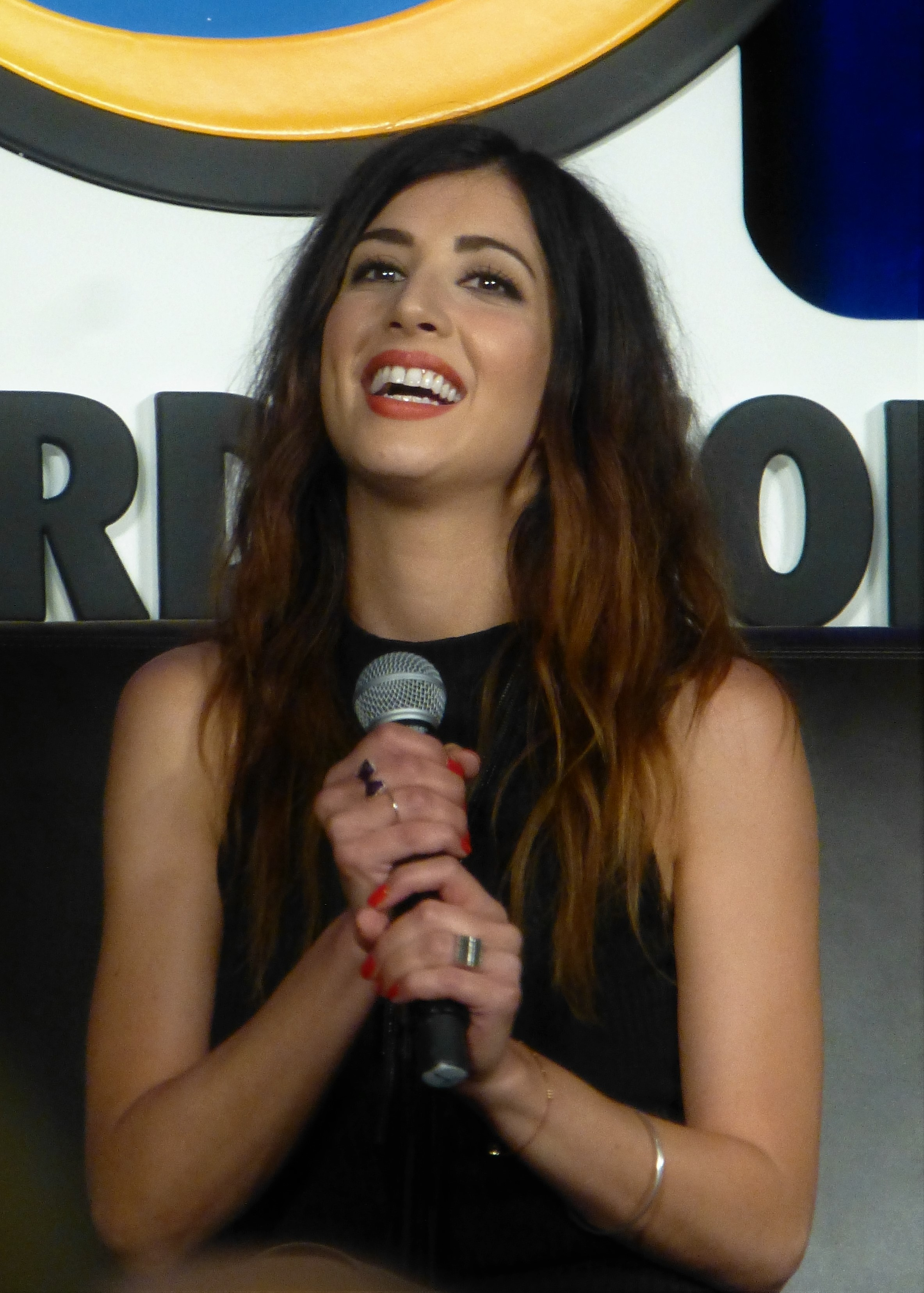 Dana DeLorenzo at the Ash vs Evil Dead panel, 2016 Wizard World in Chicago.